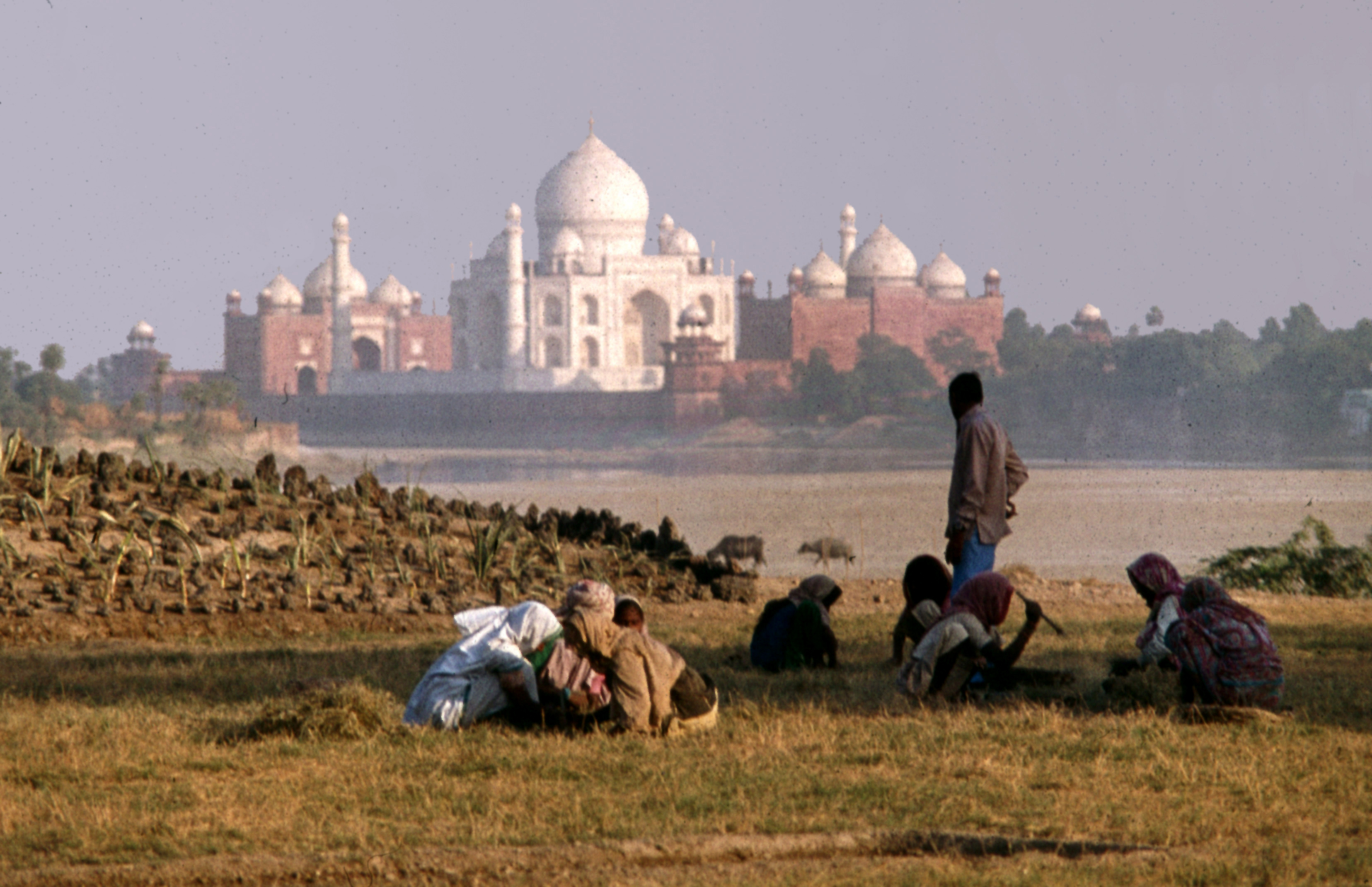 Agra in India 1976